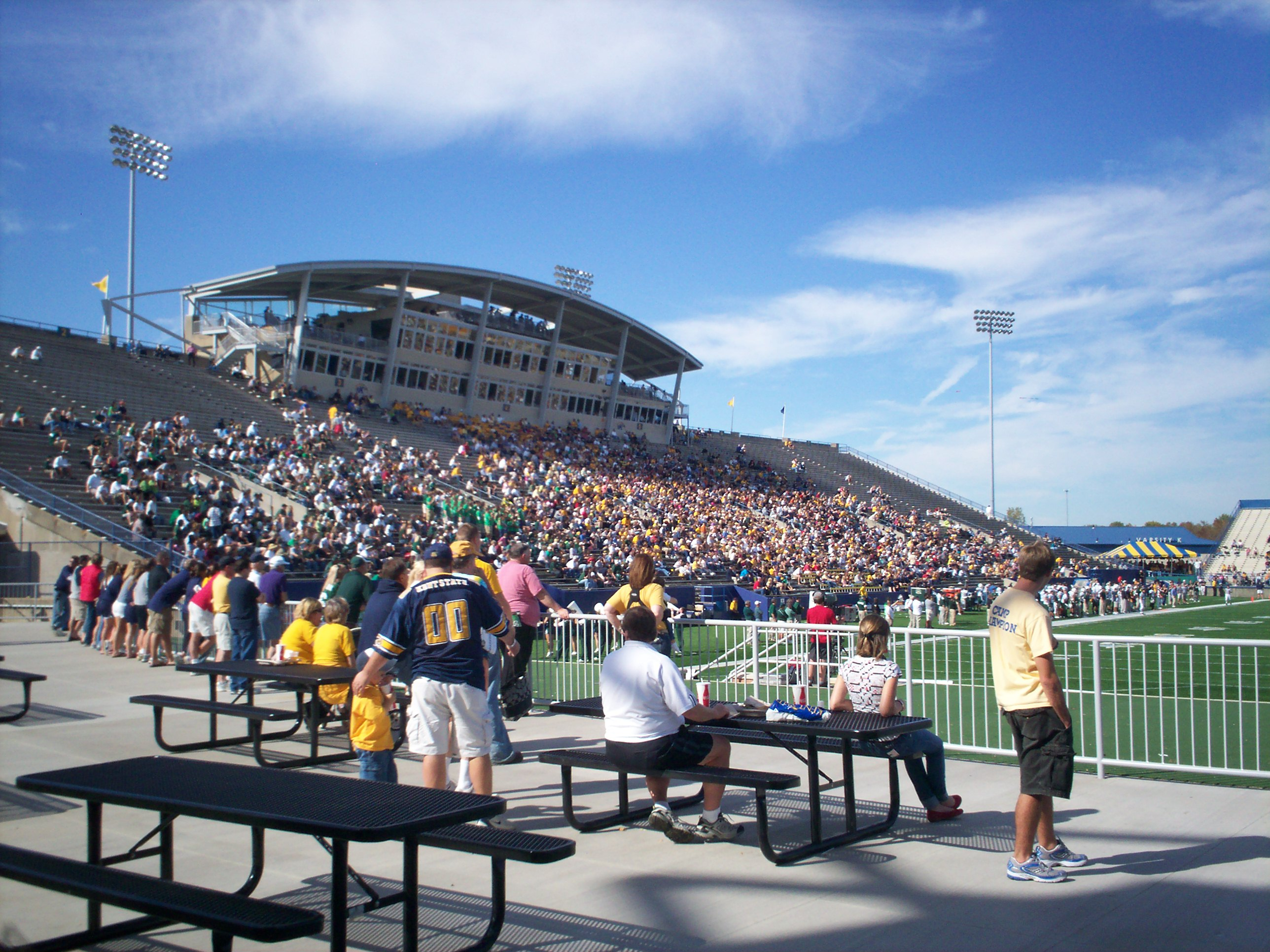 Photo of Dix Stadium west stands during 11 October 2008 game between Kent State and Ohio University.